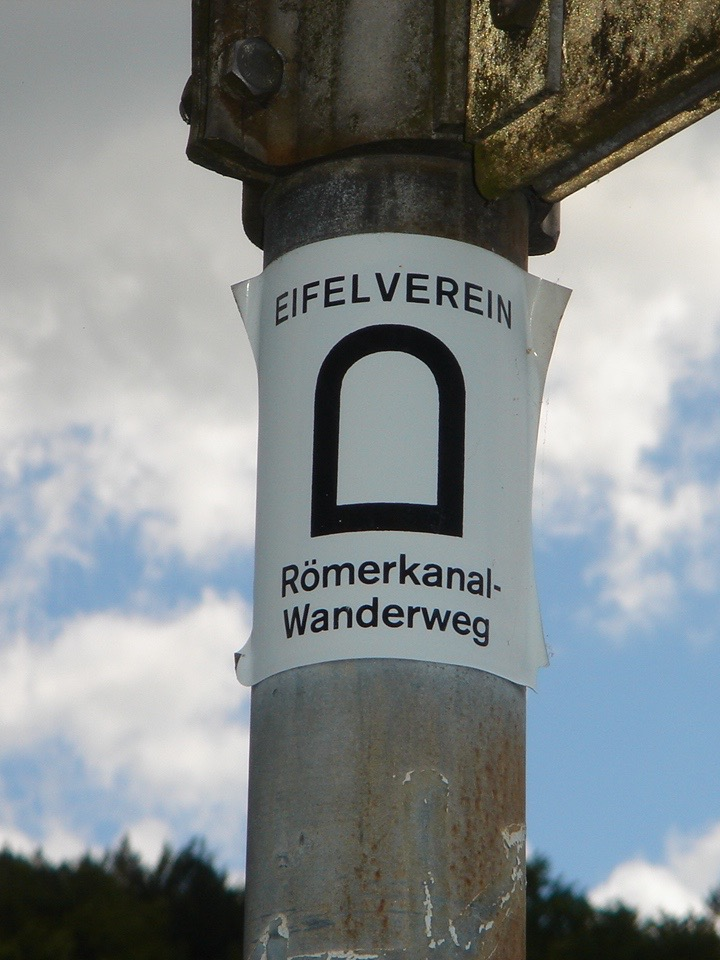 Logo Römerkanal on sign